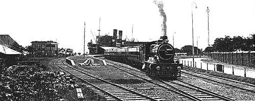 "Frontier Mail" (Bombay, Baroda and Central India Railway) leaving Ballard Pier Mole station in Bombay.